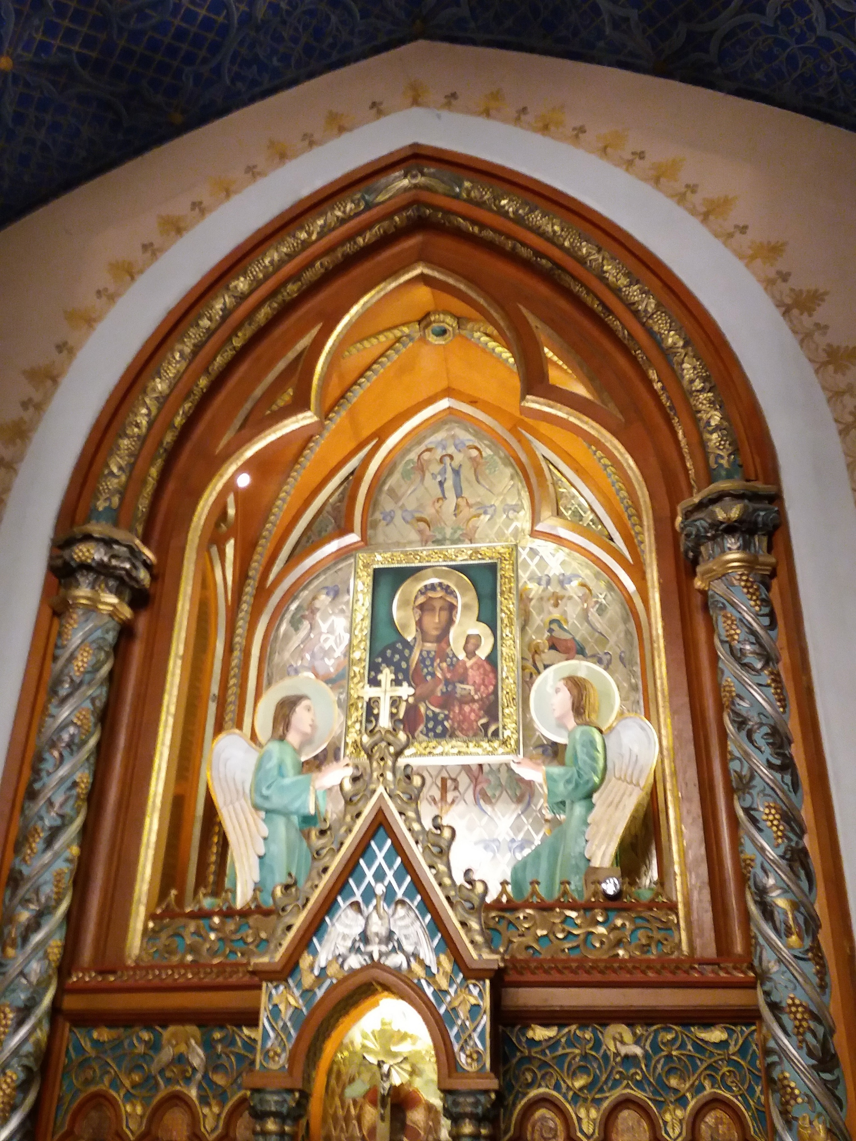 Our Lady of Czestochowa parish church in Montreal (Que), Canada